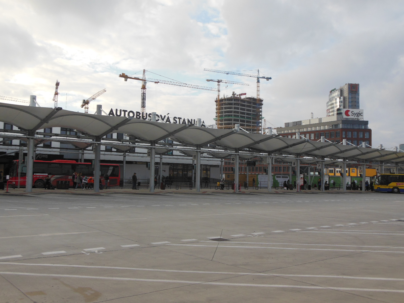 Bus station Bottova in Bratislava, Slovakia in November 2017